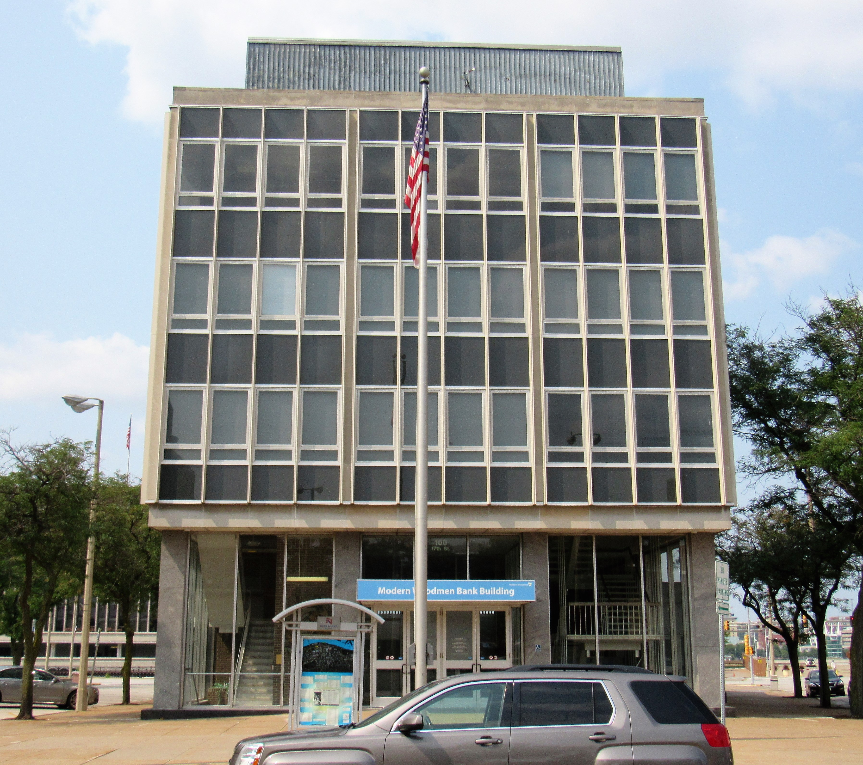 Modern Woodmen Bank in downtown Rock Island, Illinois. It originally housed First National Bank of Rock Island.